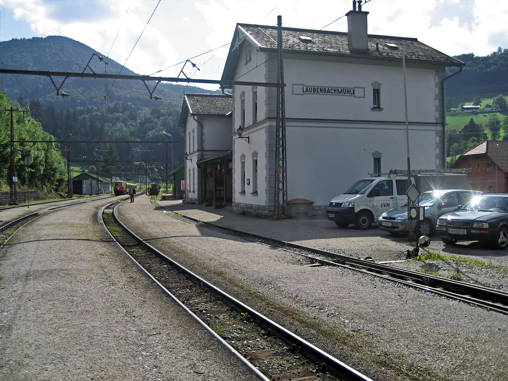 Laubenbachmühle train station in Lower Austria